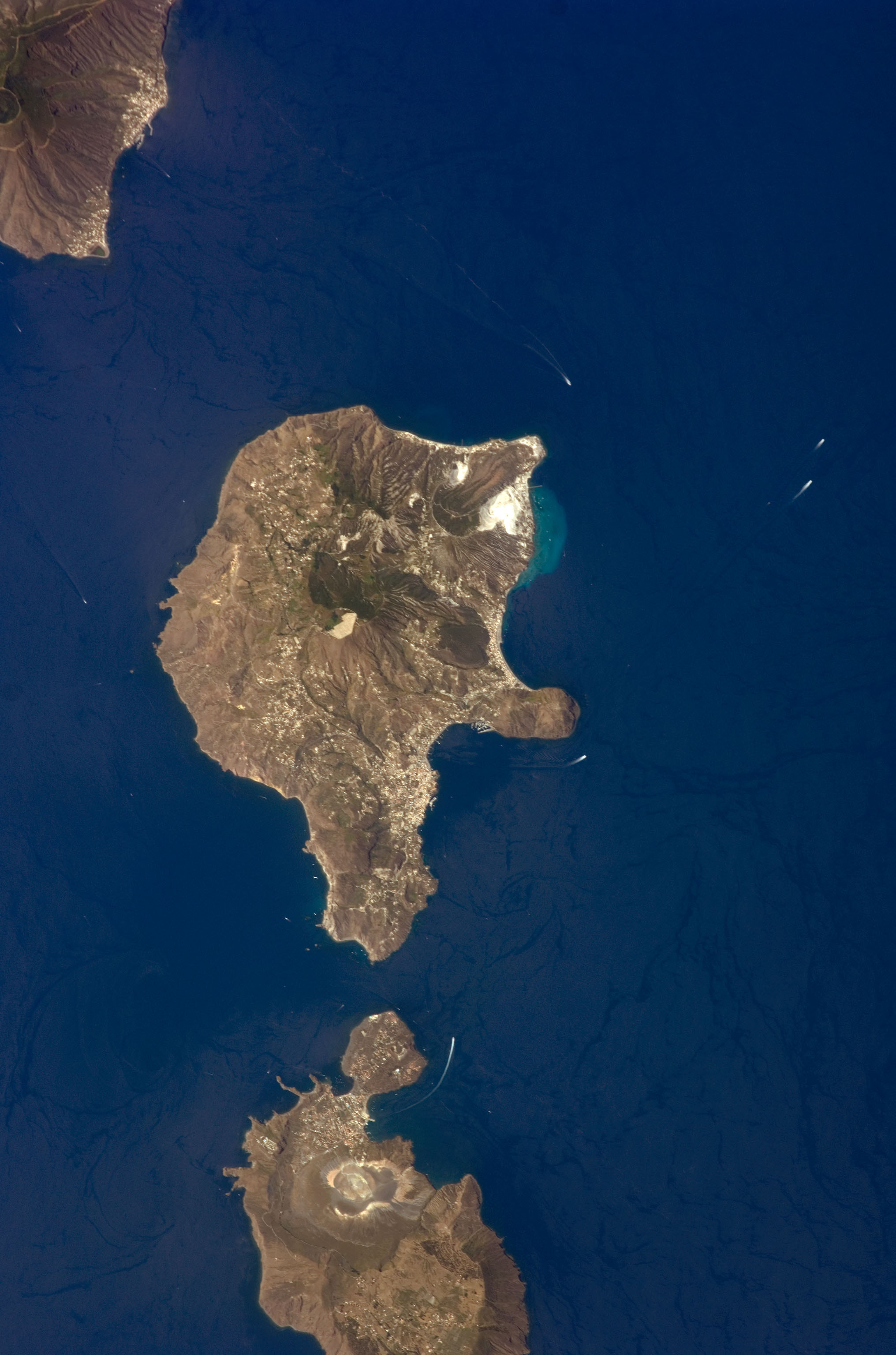 This detailed astronaut photograph features Lipari Island and the northern portion of Vulcano Island. Tan, speckled areas on both islands are urban areas and towns. Lipari is the largest of the Aeolian Islands, and it is a popular tourist destination due to its rugged volcanic topography and beaches (several boat wakes are visible around the islands). White pumice beaches and caves are located along the northern and northeastern coastlines of Lipari; black sand beaches derived from lava flows can also be found on the island. The most recent eruptive activity on Lipari took place from approximately AD 580–729. ISS Crew Earth Observations: ISS017-E-9777 Identification Mission ISS017 (Expedition 17) Roll E Frame 9777 Country or Geographic Name SICILY Features LIPARI ISLAND, VULCANO ISLAND Center Point Latitude 38.5° N Center Point Longitude 14.9° E Camera Camera Tilt 17° Camera Focal Length 400 mm Camera Nikon D2Xs Film 4288 x 2848 pixel CMOS sensor, RGBG imager color filter. Quality Percentage of Cloud Cover 0-10% Nadir What is Nadir? Date 2008-06-24 Time 12:50:43 Nadir Point Latitude 37.7° N Nadir Point Longitude 15.4° E Nadir to Photo Center Direction Northwest Sun Azimuth 247° Spacecraft Altitude 187 nautical miles (346 km) Sun Elevation Angle 63° Orbit Number 2968